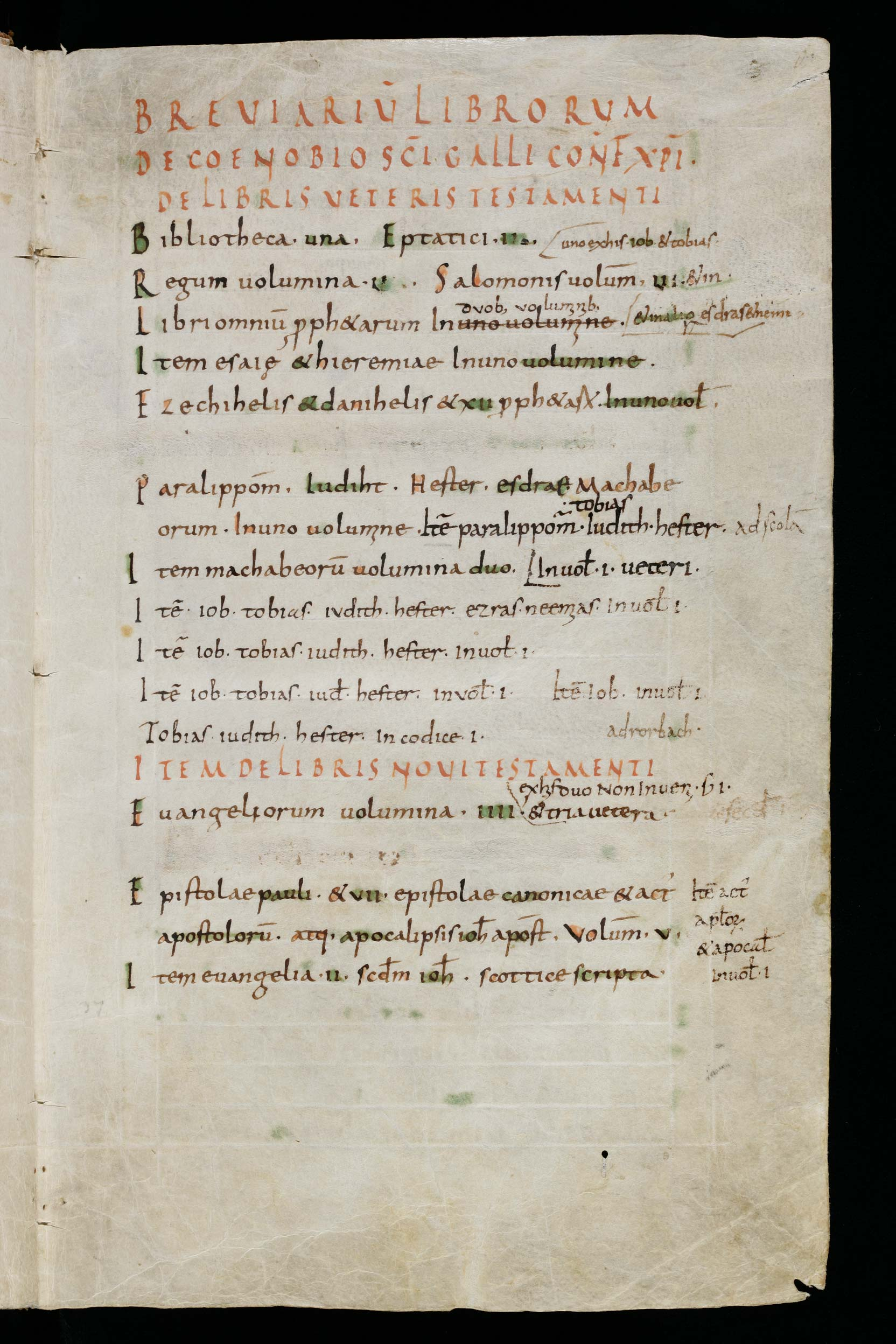 St. Galler Catalogue (Cod. Sang. 728), p. 5